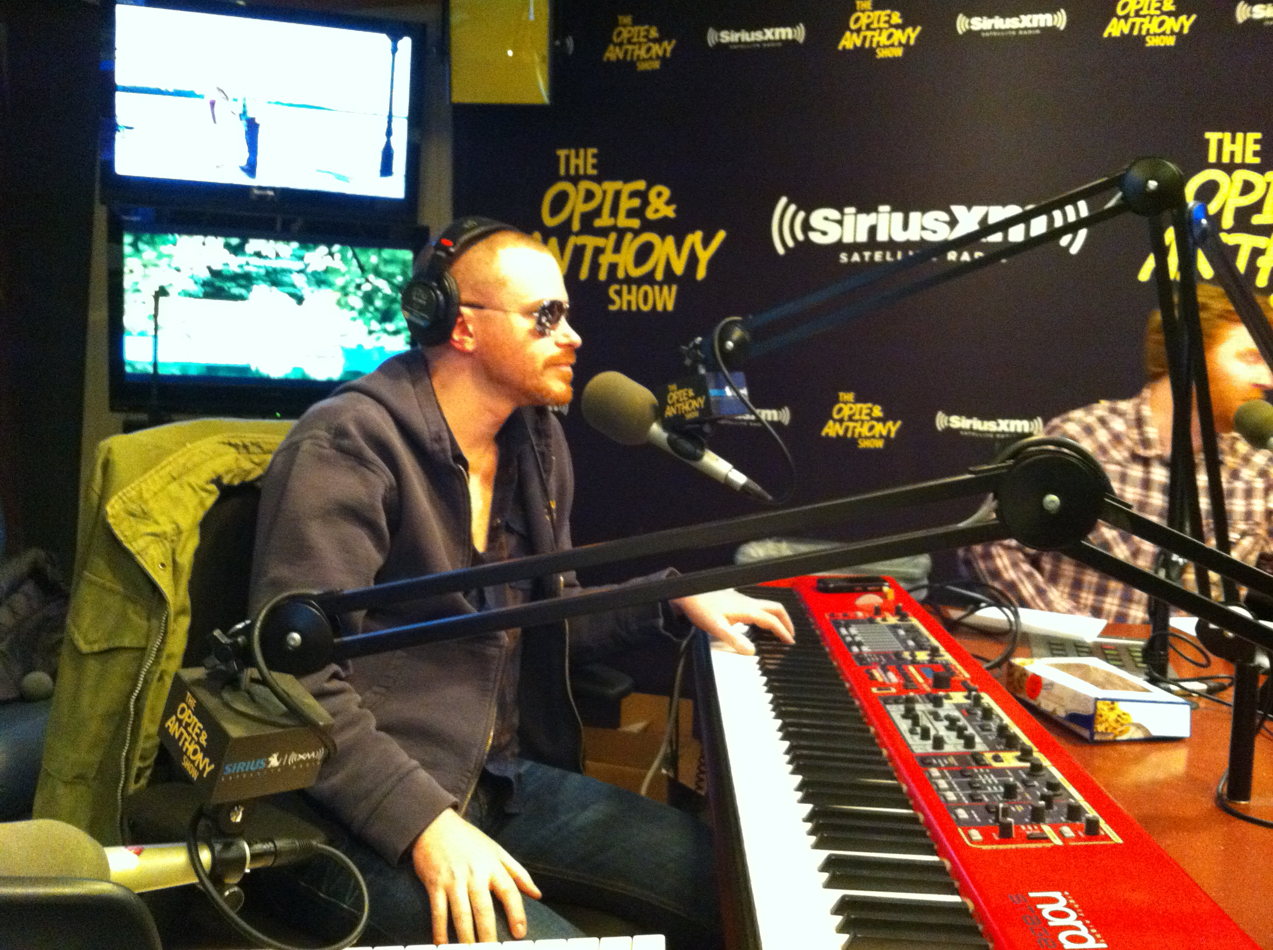 Roy Harter aka Roy Shaffer in the Opie and Anthony Studio doing the Davey Mac Sports Program. Clavia Nord Stage